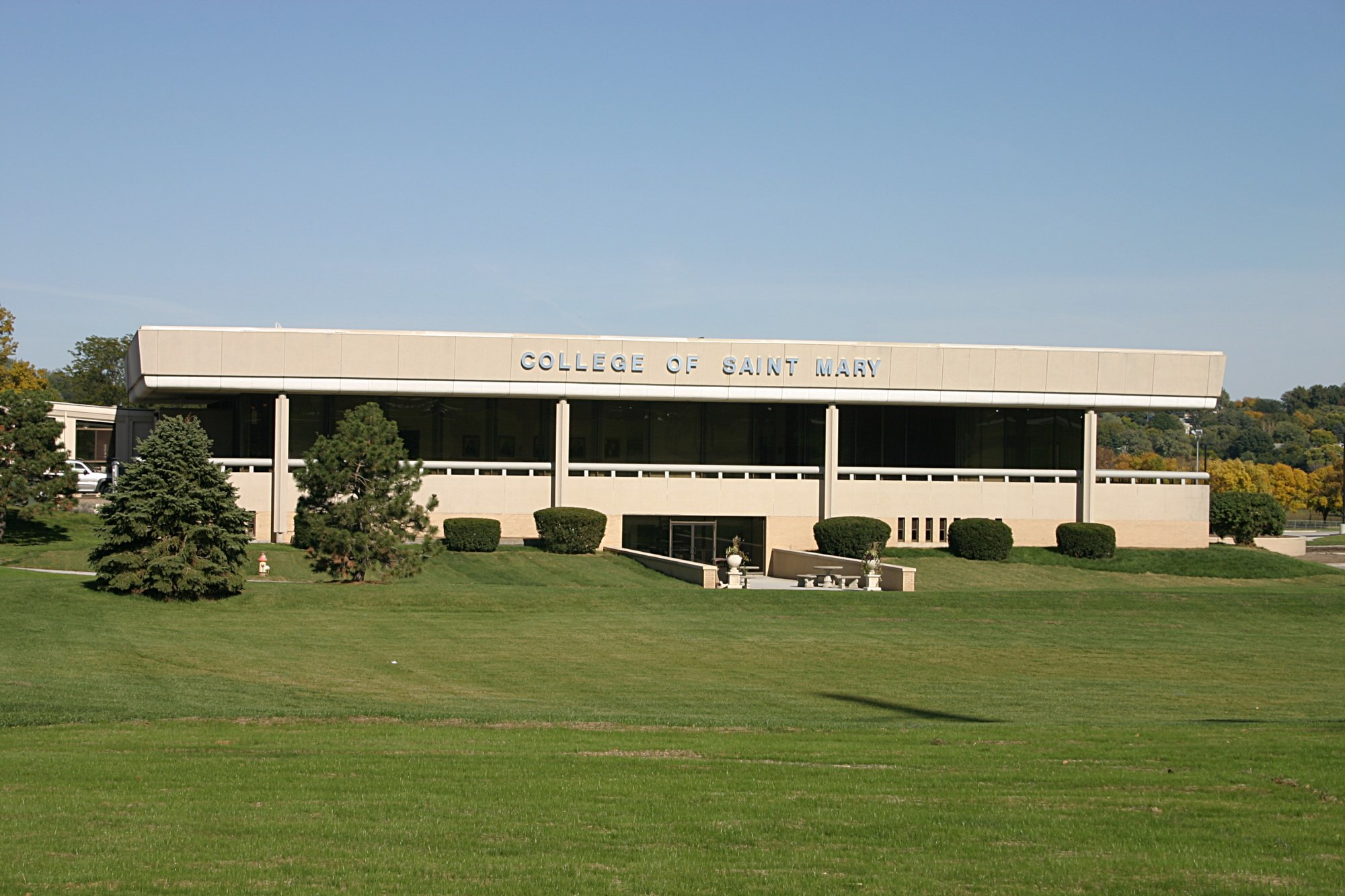 Mercy Hall (from the west-southwest) at College of Saint Mary in Omaha, Nebraska